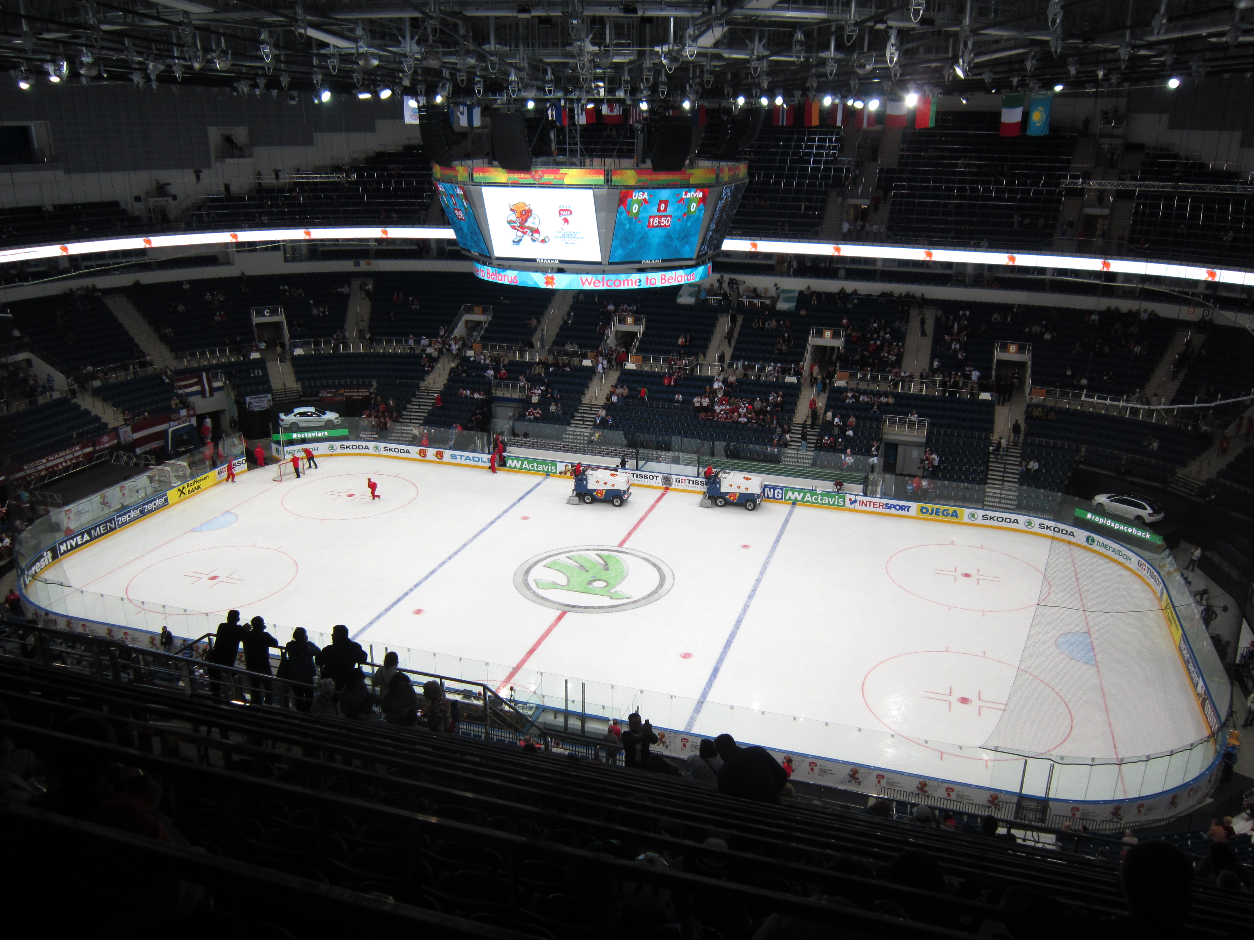 Minsk-Arena before game USA—Latvia (IIHF World Championship 2014), 15 May